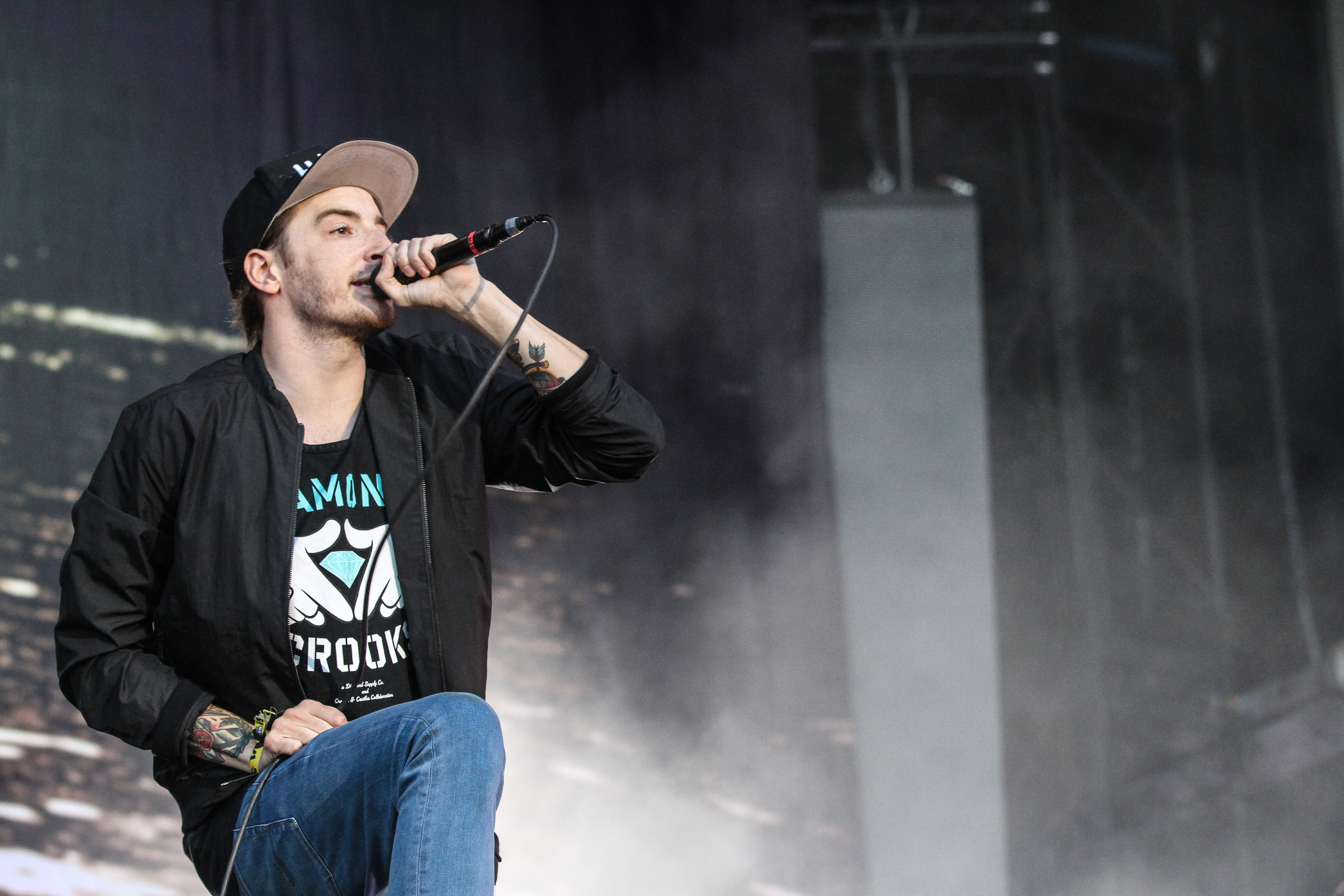 Casper performing at Berlin Festival 2013